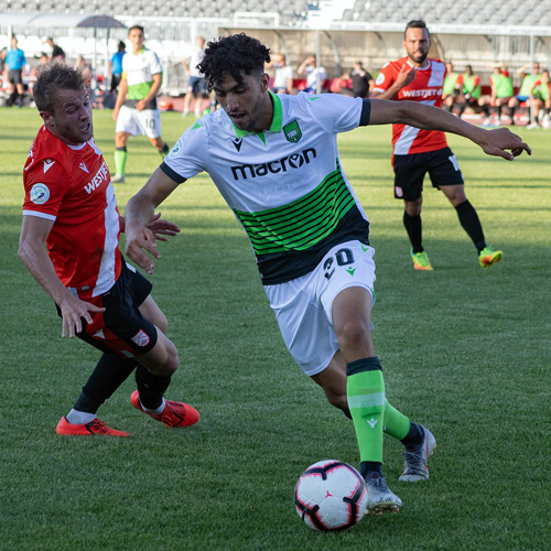 Diyaeddine Abzi dribbles the ball for York9 FC in a match against Cavalry FC on June 26, 2019.